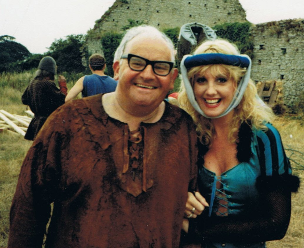 Photograph of Susie Silvey with Ronnie Barker